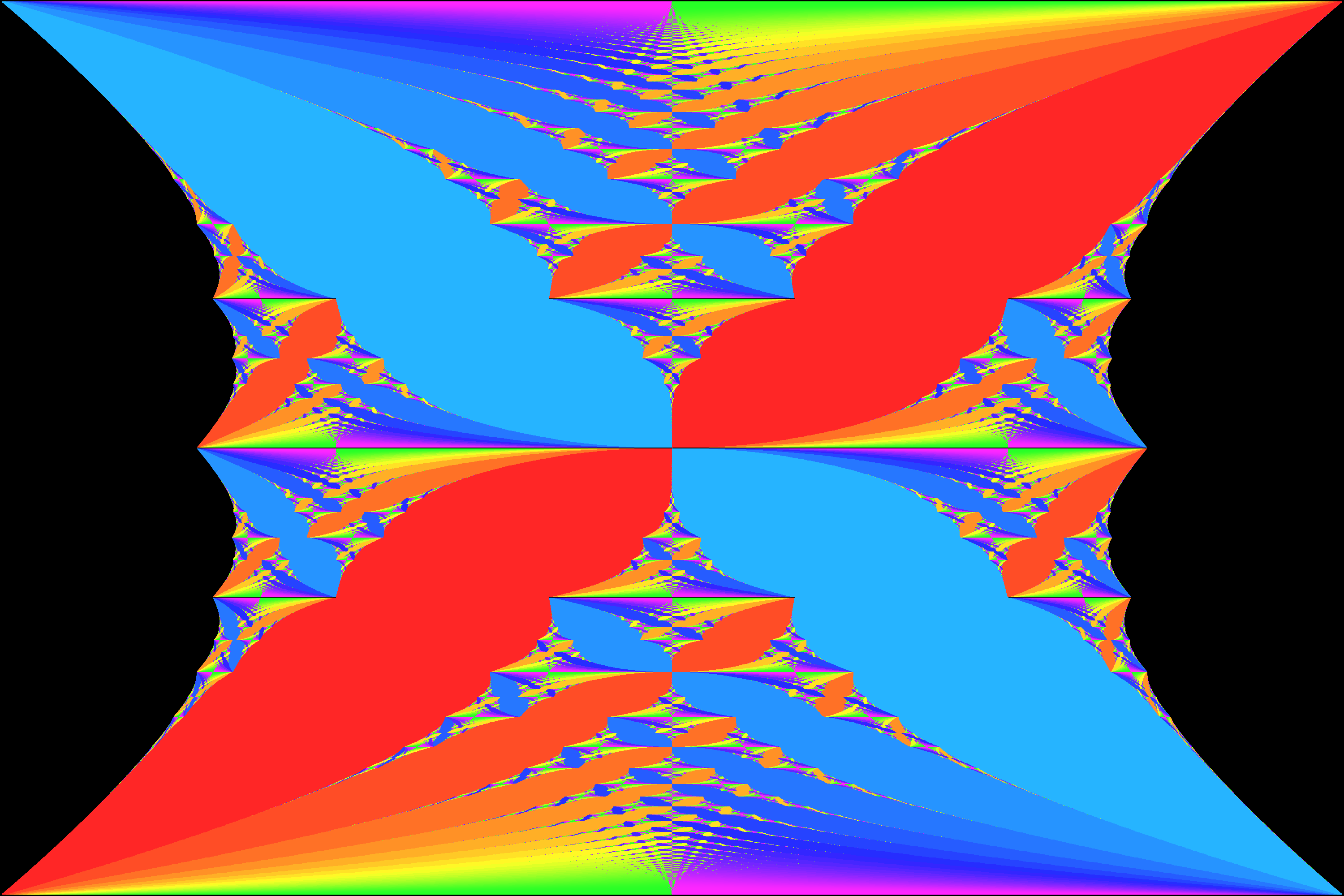 Hofstadter's butterfly in color. The horizontal axis is the energy (or chemical potential) and the vertical axis is the magnetic flux through the unit cell. The warm and cold colors represent positive and negative values of Hall conductance, respectively. The butterfly was discovered by Douglas Hofstadter in his paper "Energy levels and wave functions of Bloch electrons in rational and irrational magnetic fields", Phys. Rev. B 14, 2239 (1976). Thanks to Daniel Osadchy for the Matlab codes.